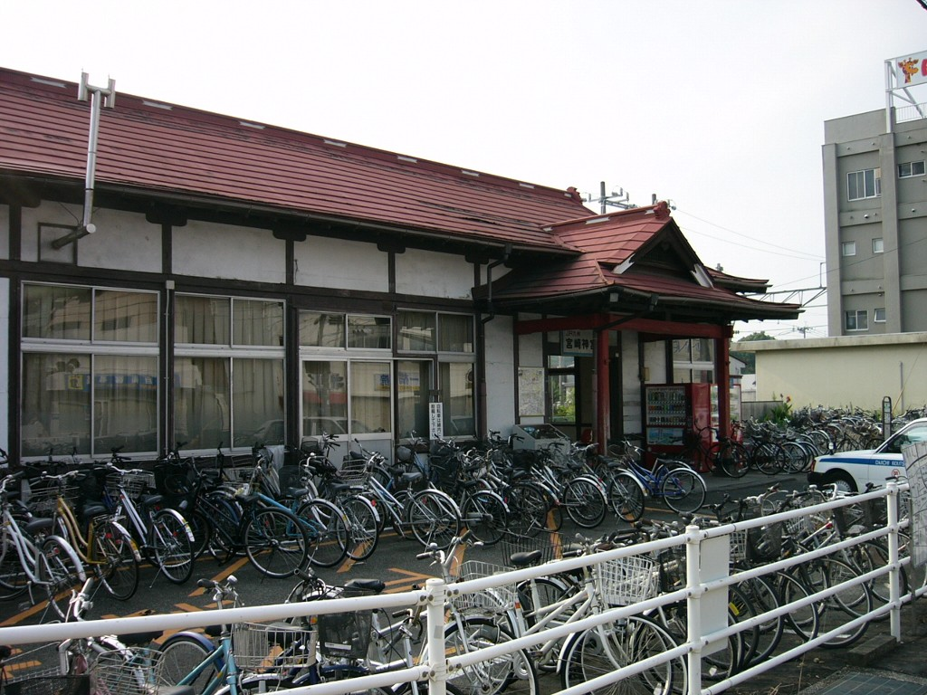 Miyazaki-Jingu Station on Nippo Main Line, Kyushu Railway (JR Kyushu) in Miyazaki City, Miyazaki Prefecture, Japan. The station building was demolished later.